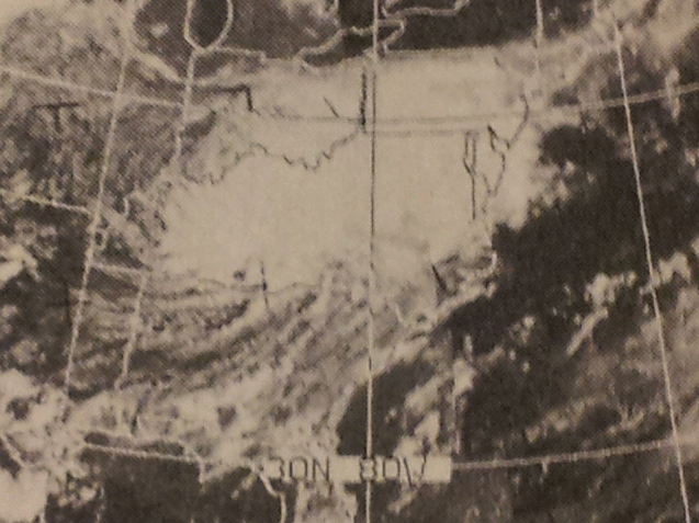 This weather satellite image of Camille was taken on August 20, 1969